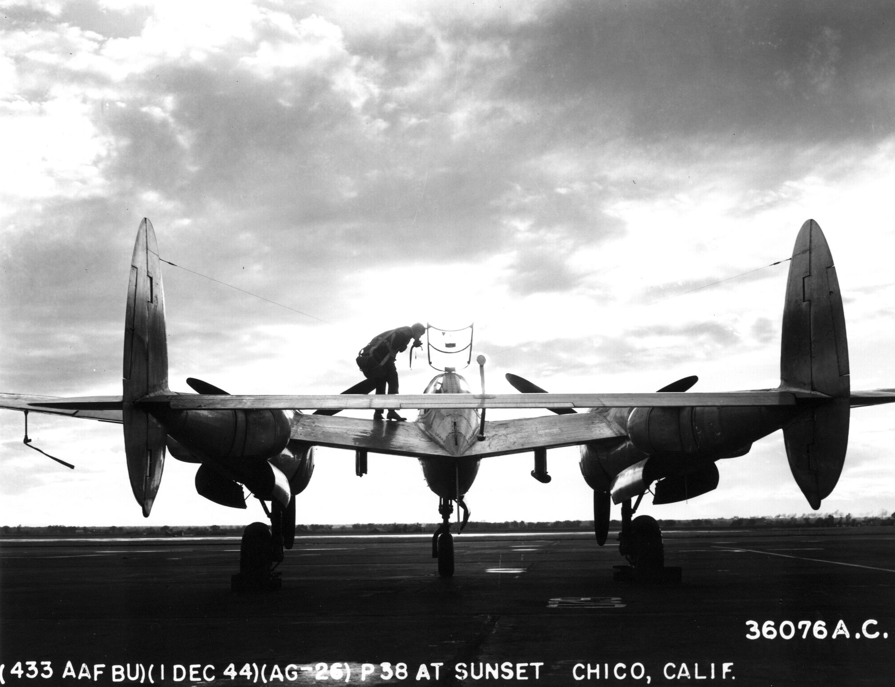 P-38 at sunset